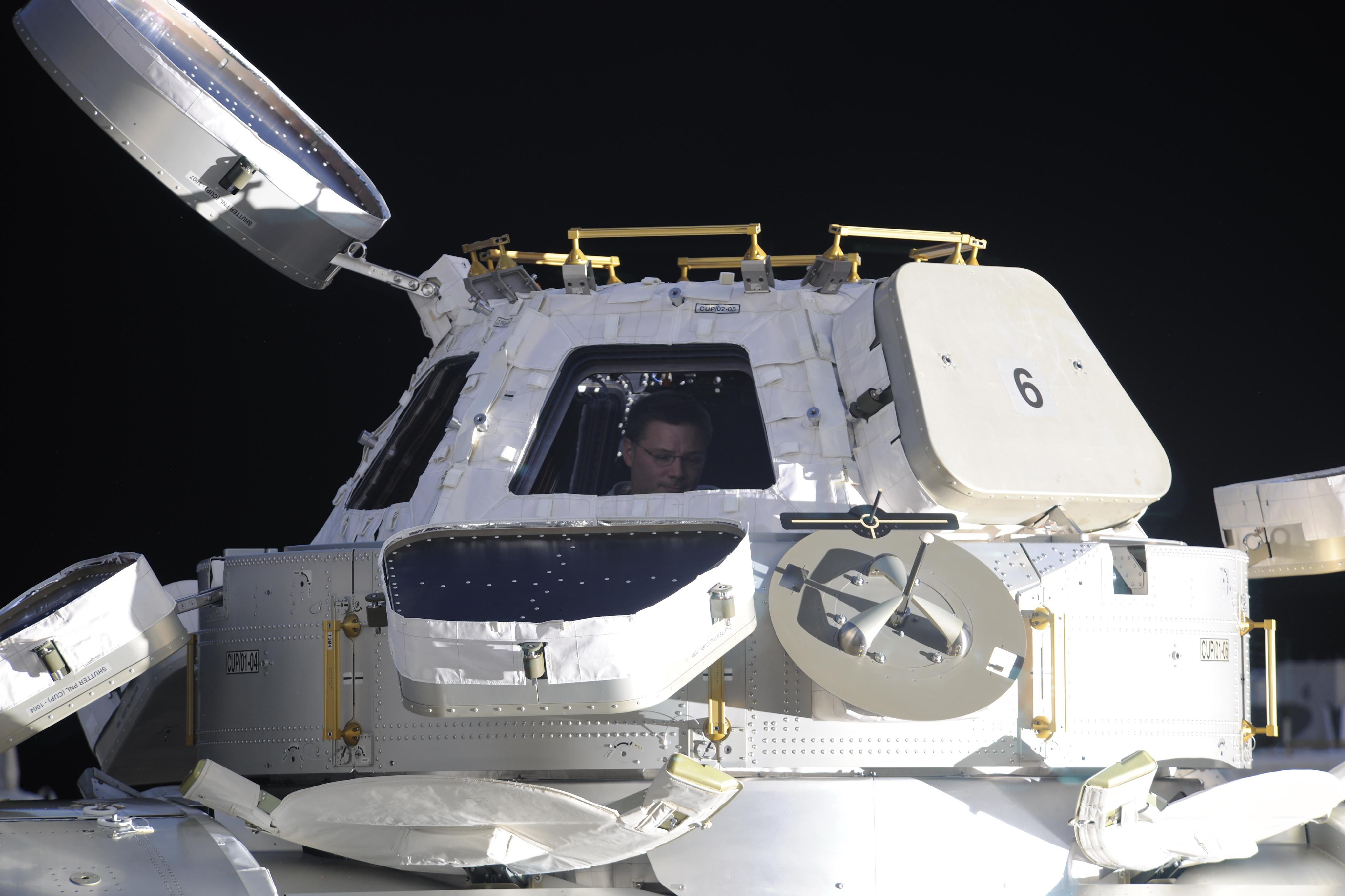 Doug Wheelock in the Cupola.